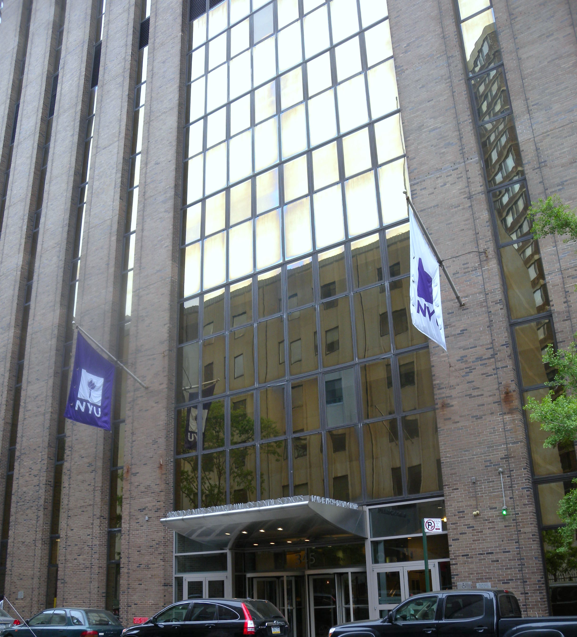 Looking north across 24th St at NYU Dentistry on a cloudy afternoon.